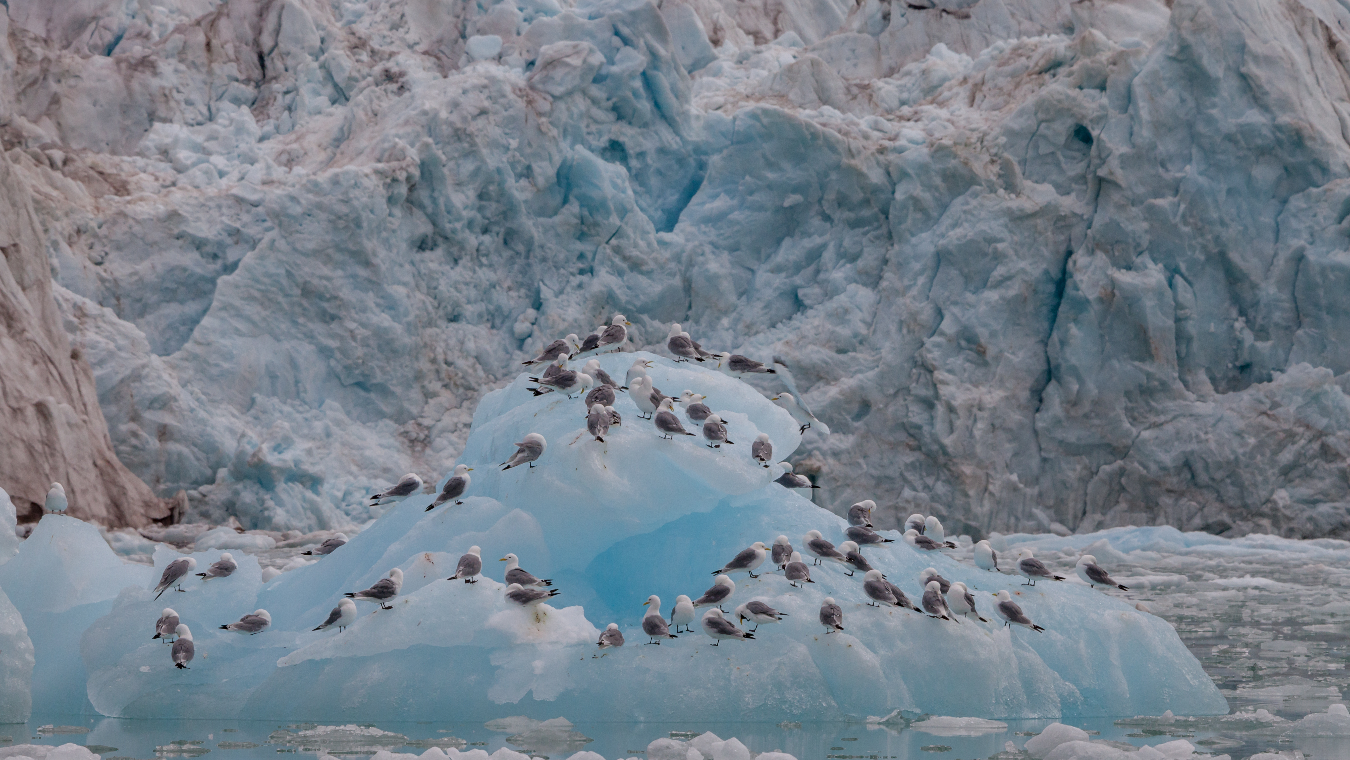 Kittiwakes Rissa tridactyla are common on Svalbard; approximately 270,000 pairs usually breed here in summer. They are often found in front of the glaciers sitting on ice floes taking care for their plumage during their moult.